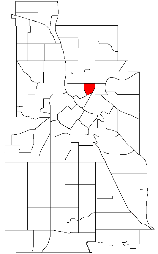 Location of the Saint Anthony East neighborhood in Minneapolis